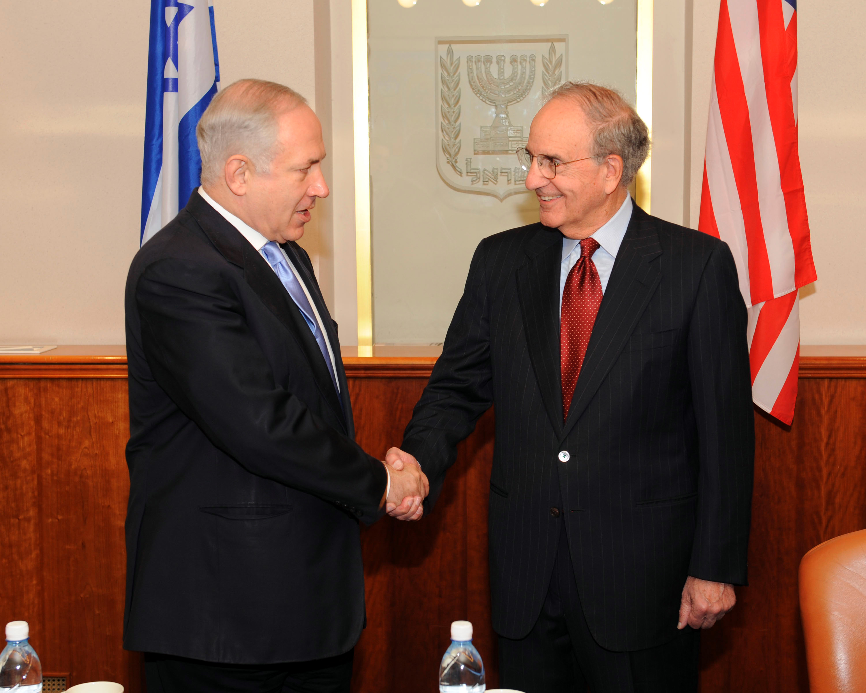 U.S. Special Envoy to the Middle East George J. Mitchell meeting with Israeli Prime Minister Benjamin Netanyahu at the Prime Minister Office in Jerusalem October 30, 2009. [State Department photo by Matty Stern U.S. Embassy Tel Aviv / Public Domain]